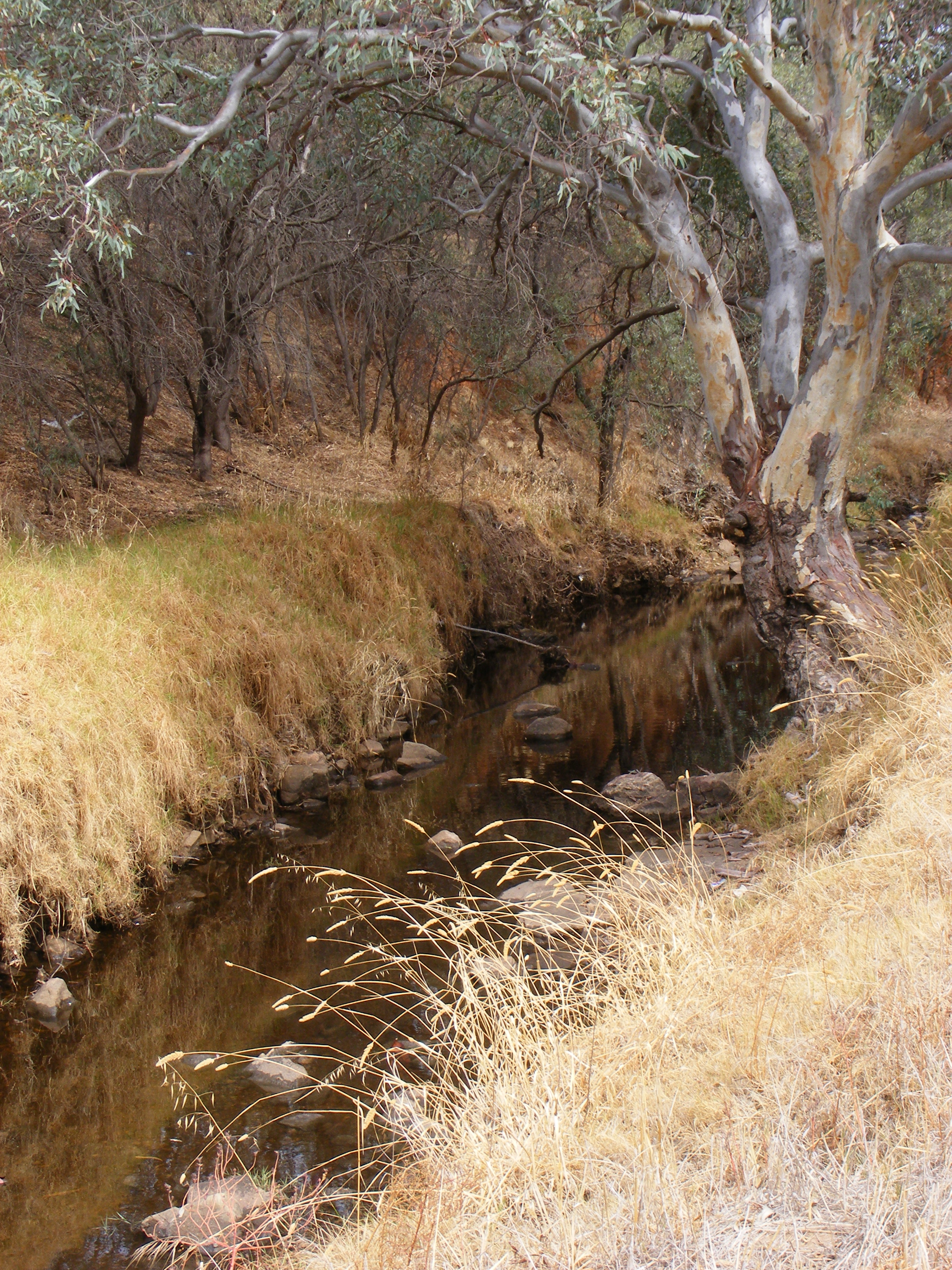 Dry Creek - after the first Autumn rains, at the rear of Yatala Prison, Adelaide, South Australia